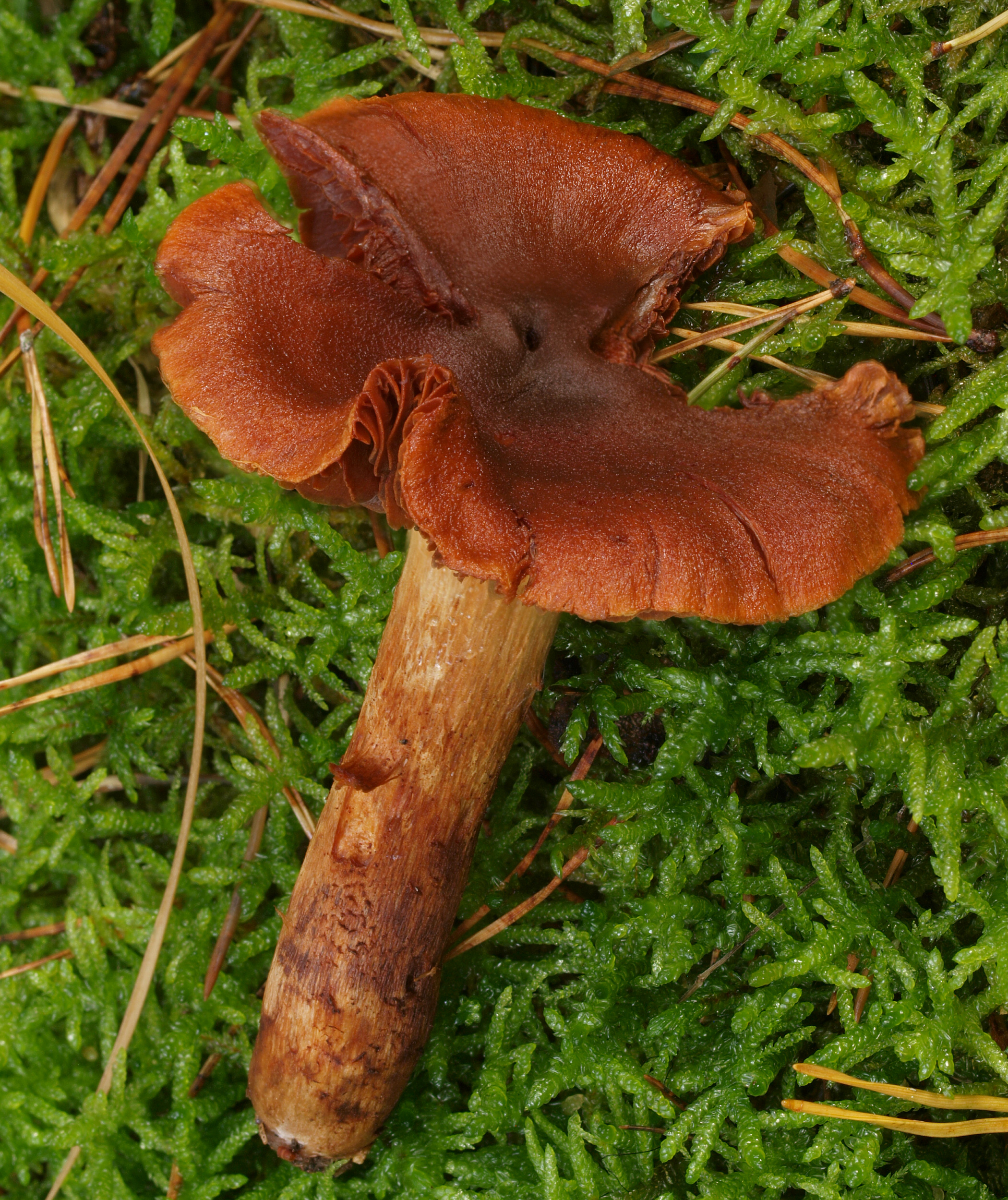 Fool's Webcap (Cortinarius orellanus)